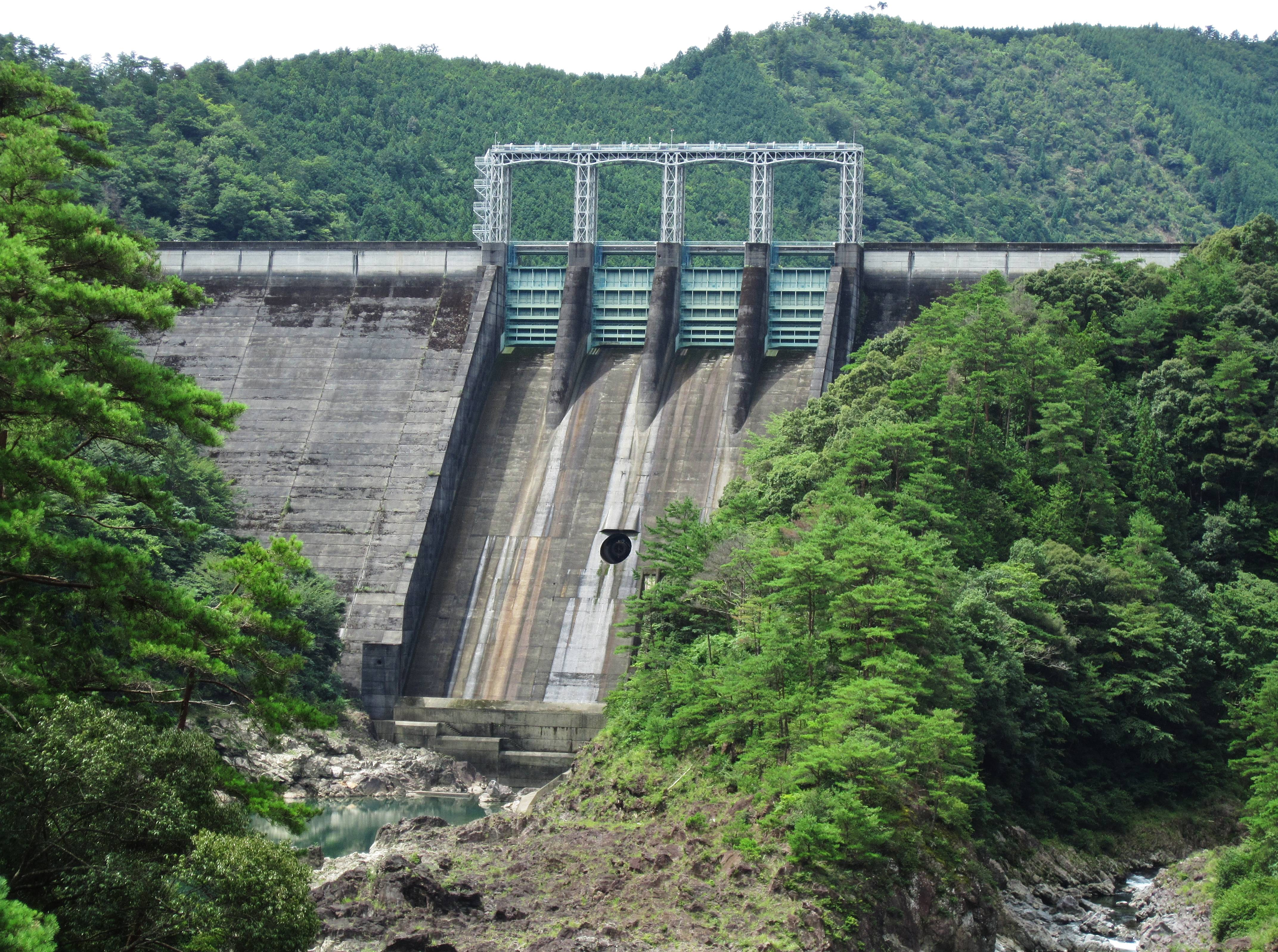 Kazeya Dam.